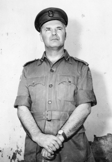 AWM description: SOUTH VIETNAM. C 1962. PORTRAIT OF COLONEL F. P. (TED) SERONG DSO OBE. COLONEL SERONG COMMANDED THE AUSTRALIAN ARMY TRAINING TEAM VIETNAM (AATTV) FROM 1962 TO 1965.